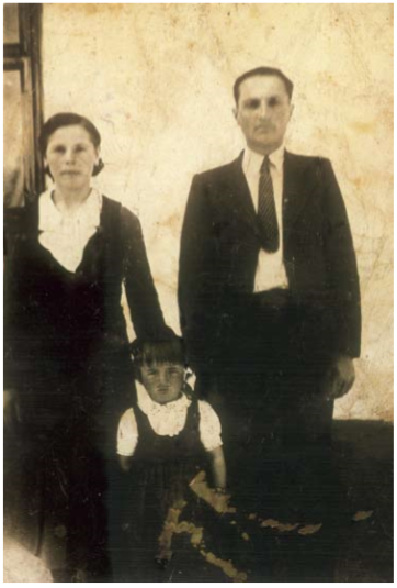 מצילו של ישראל שריר חסיד אומות העולם מיכאיל בלגאי , אשתו ליובומירה ובתו ולדימירה